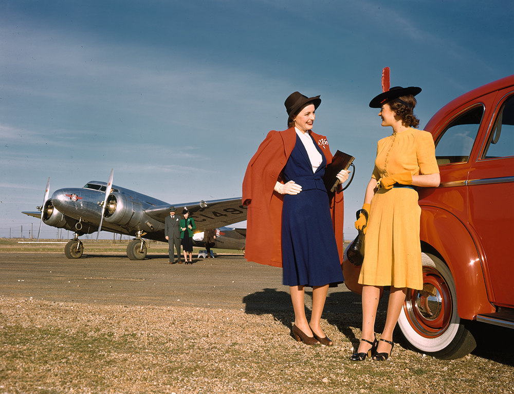 Title: [Models with Oldsmobile Automobile, Lockheed 10B Electra, Delta Air Lines] Creator: Robert Yarnall Richie Date: March 1940 Place: Dallas, Texas Part Of: Robert Yarnall Richie Photograph Collection Description: The photographer’s notes from this negative series indicate these models were working for Neiman Marcus. The photographer's notes from this negative series indicate that the automobile was on loan from Lone Star Oldsmobile Co, Dallas. Two models are next to an Oldsmobile Series 70 automobile, while a group of models stand next to a Lockheed model 10B Electra, owned by Delta Air Lines, at Dallas Love Field Airport. Physical Description: 1 transparency: film, color; 10 x 13 cm File: ag1982_0234_2116_96_sm_opt.jpg Rights: Please cite DeGolyer Library, Southern Methodist University when using this file. A high-resolution version of this file may be obtained for a fee. For details see the web page. For other information, . For more information, View the Robert Yarnall Richie Photograph Collection